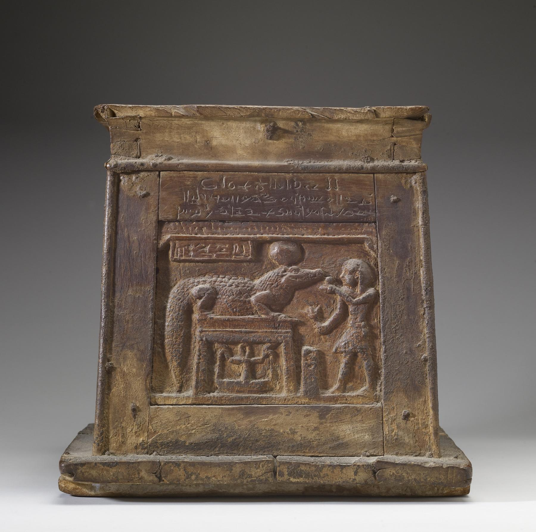 The front of this box shows a king making an offering to the crocodile-god Sobek. Above the scene is an inscription in demotic. The box may have been used in temple rituals.